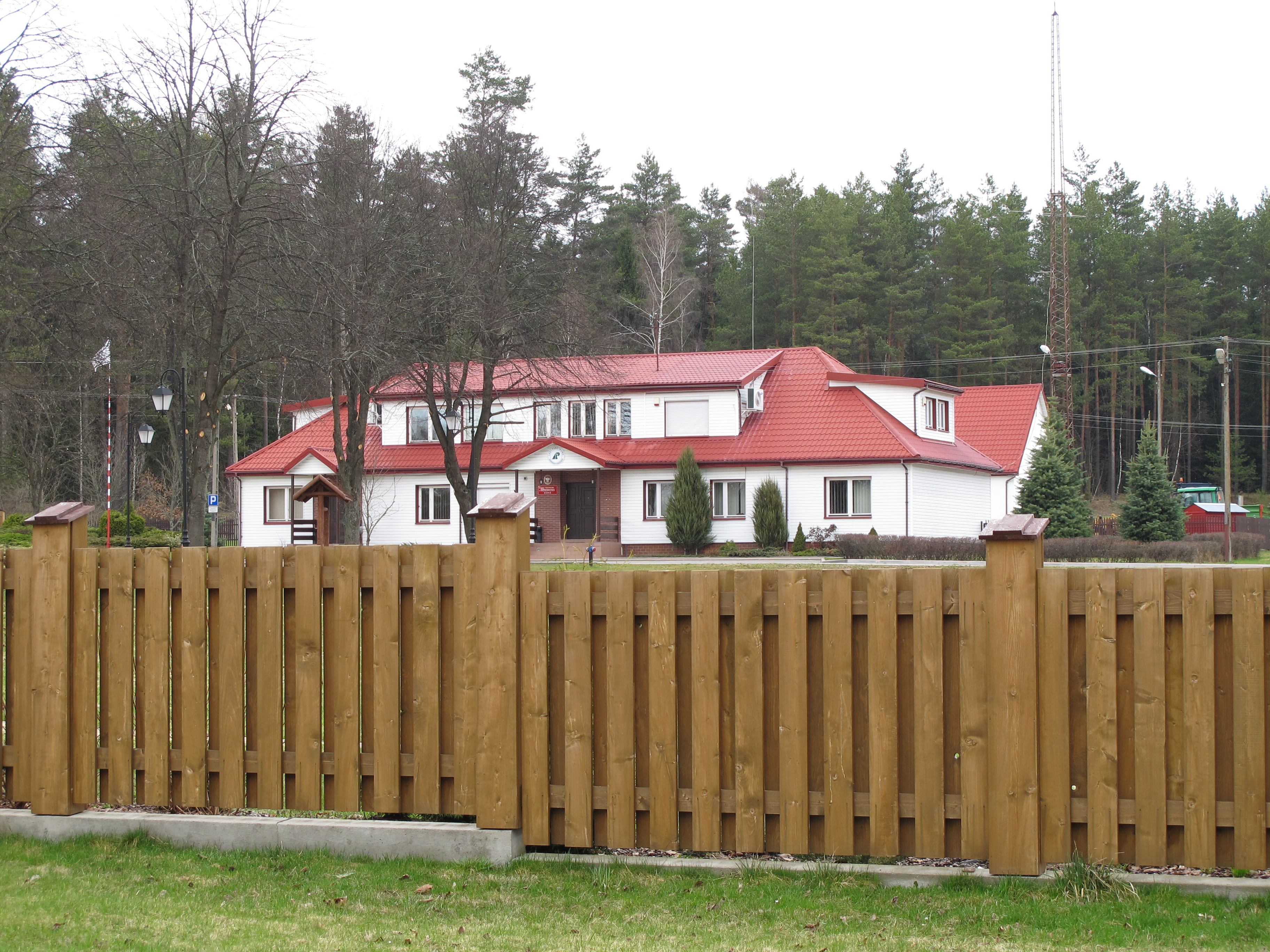 Building of the National forestry department Żednia, gm. Michałowo, podlaskie, Poland.